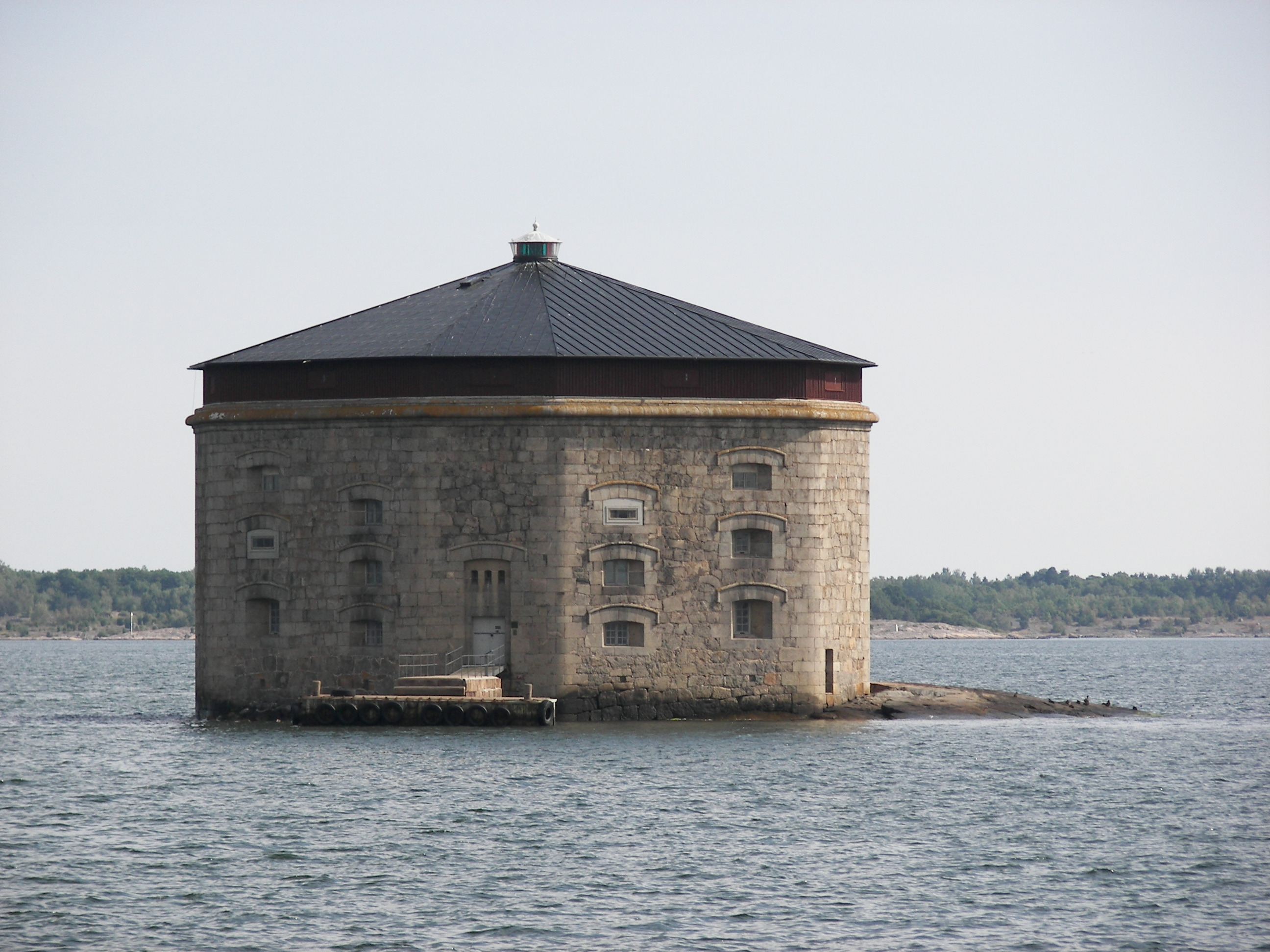 Godnatt, Karlskrona, Sweden